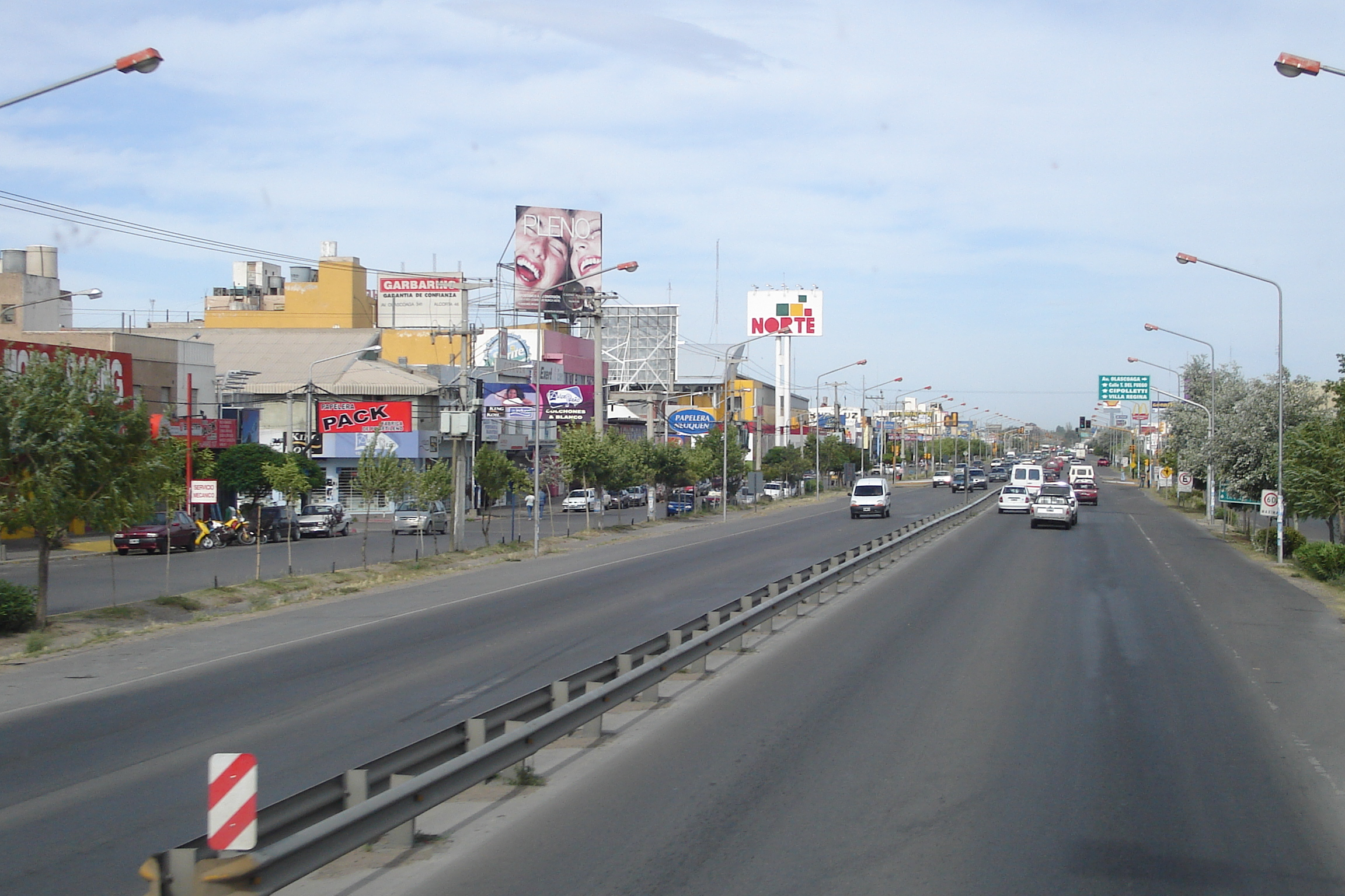 National Route 22, Argentina, passing through the city of Neuquén.